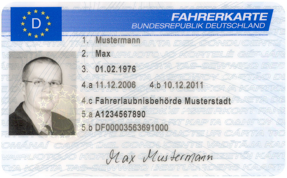 personal driver card for digital tachographs issued by the F.R.G. according to Regulation (EEC) No 3821/85 (front, sample)